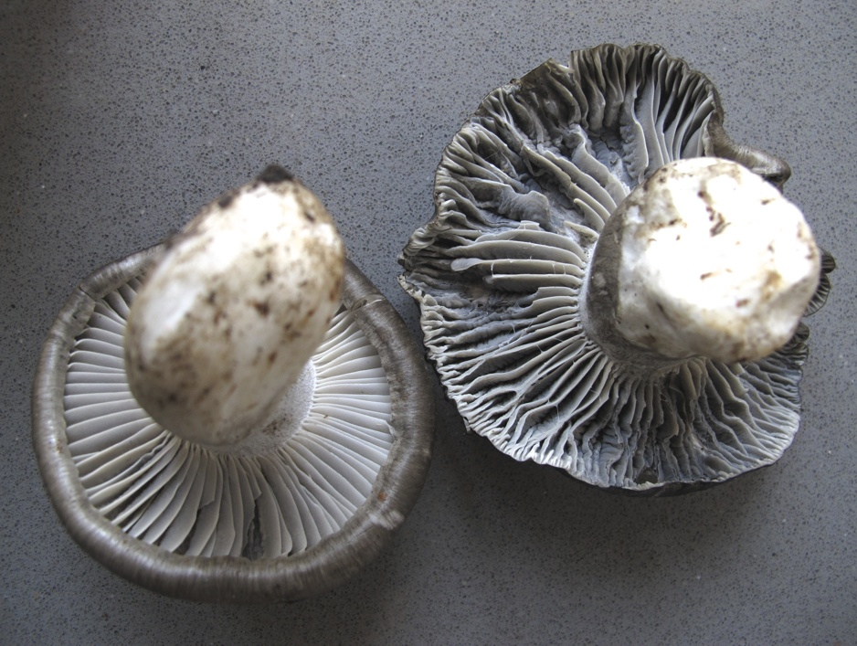 Hygrophorus marzuolus